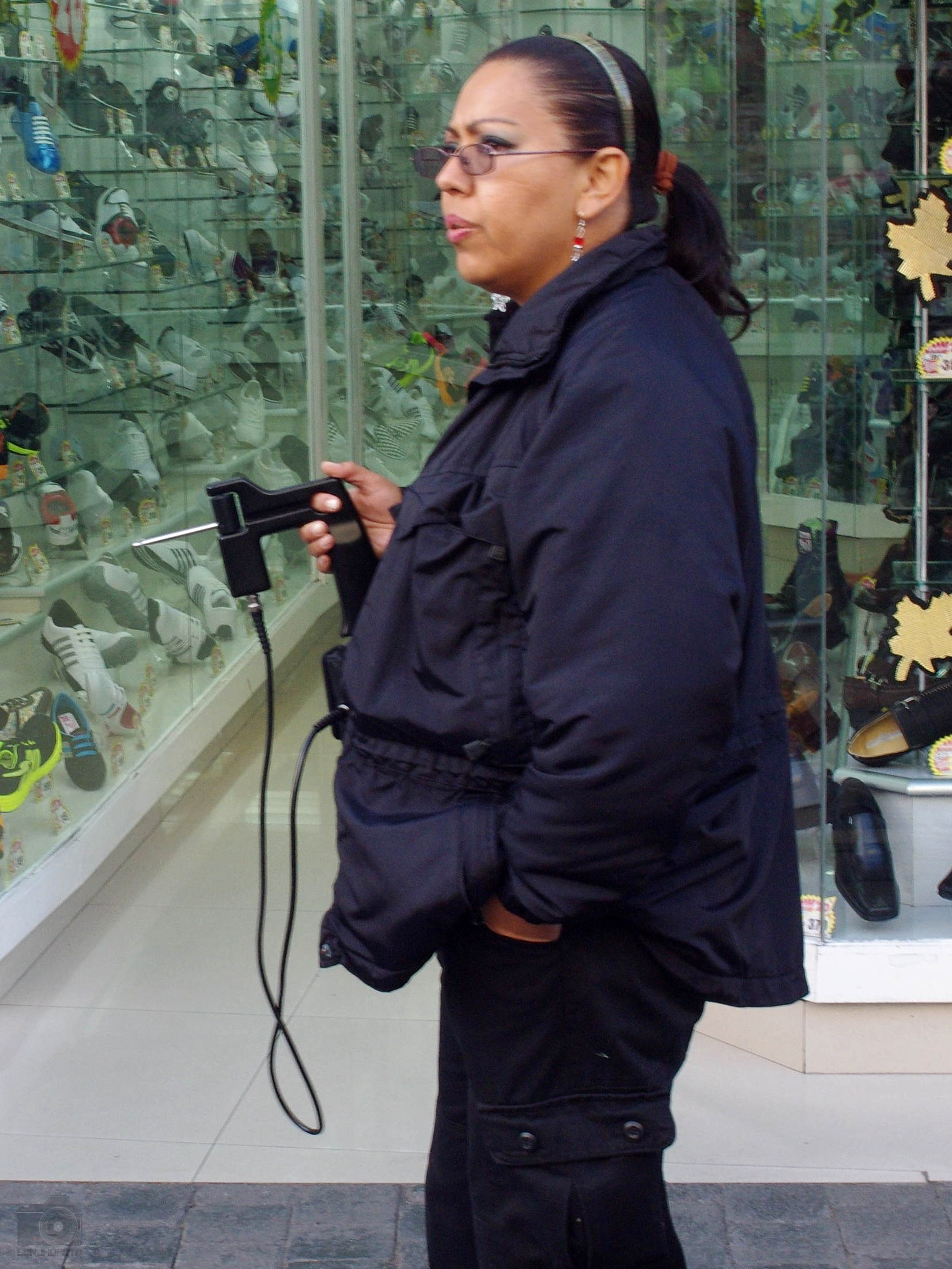 Mexican police officer holding ADE 651 (fake bomb detector). September, 2012.